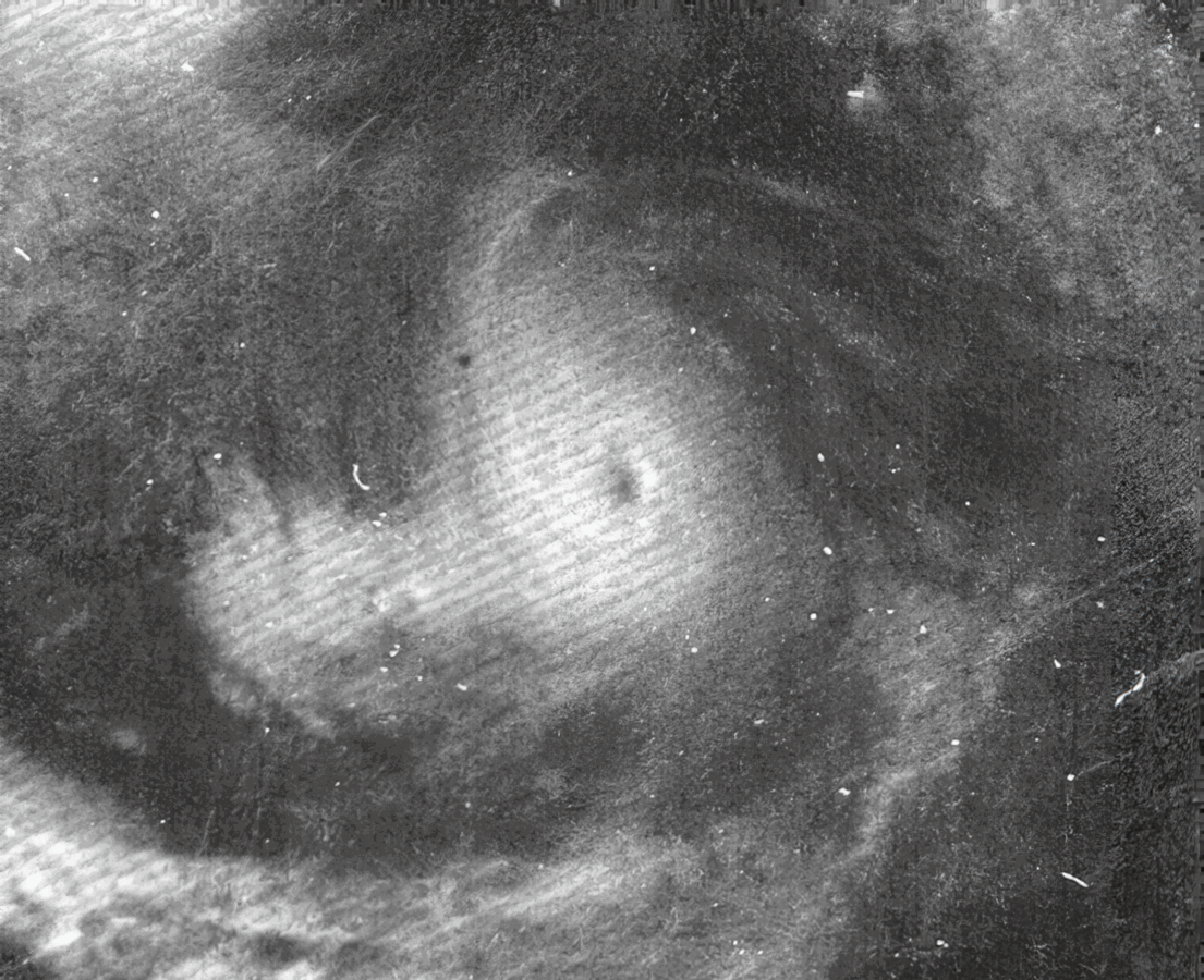 This is a section of an ATS-1 satellite image showing Hurricane Monica, from September 2, 1971 at 0008z, which originated within the National Hurricane Center archive in Coral Gables, FL